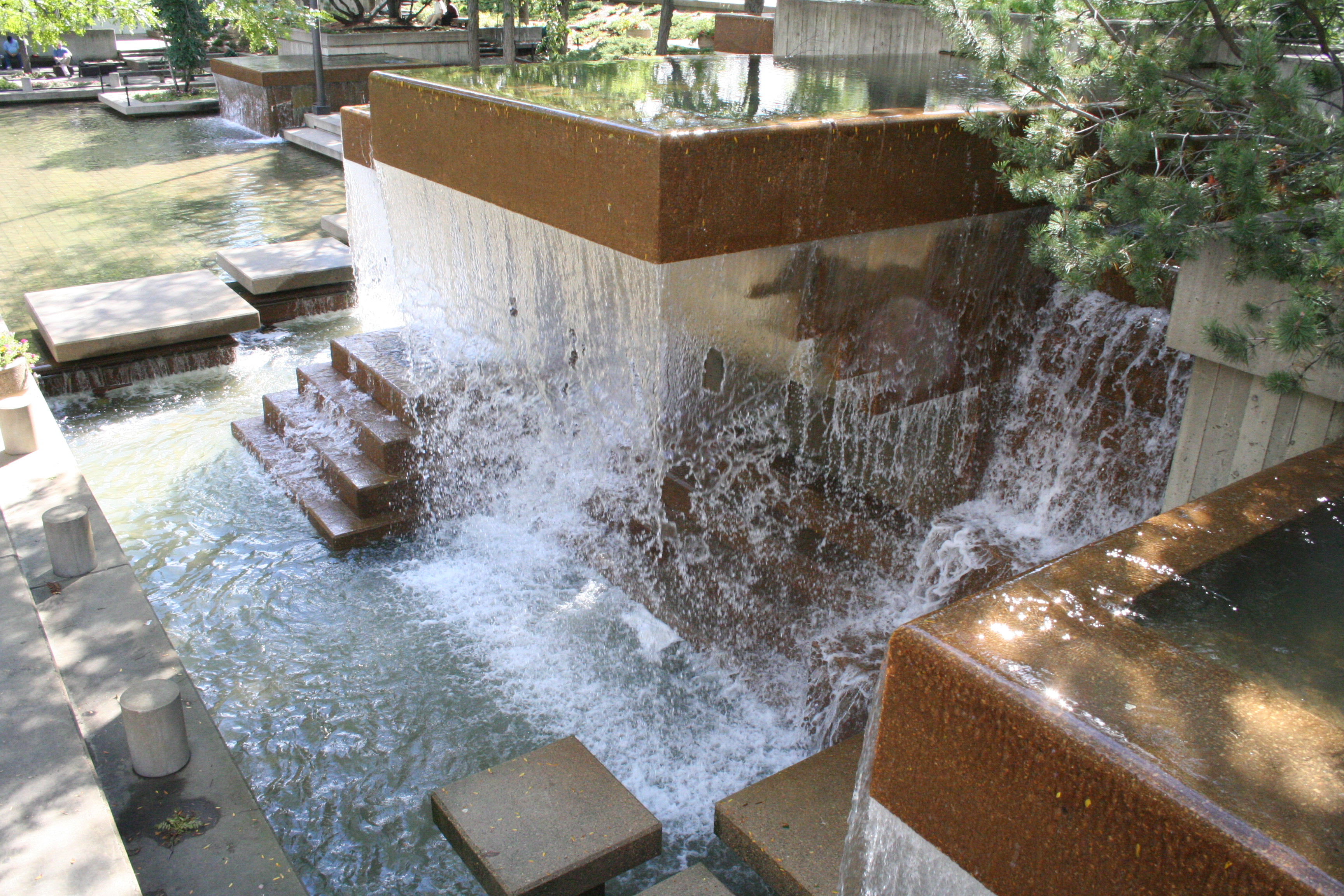 Fountain at Peavey Plaza near Orchestra Hall, Minneapolis, Minnesota